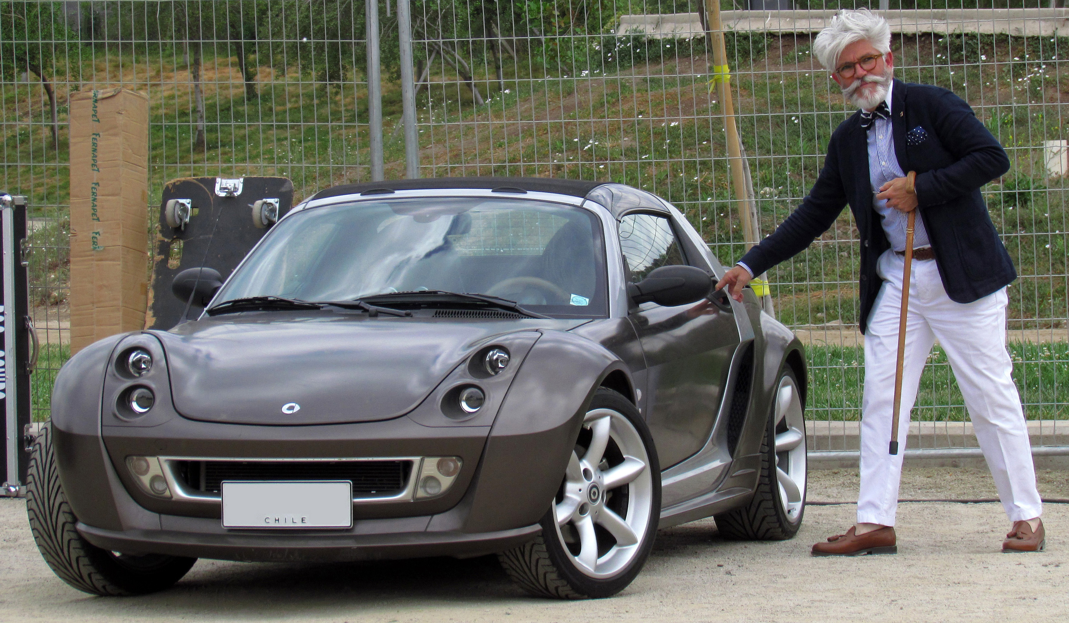 Smart Roadster Brabus Collector's Edition 2006